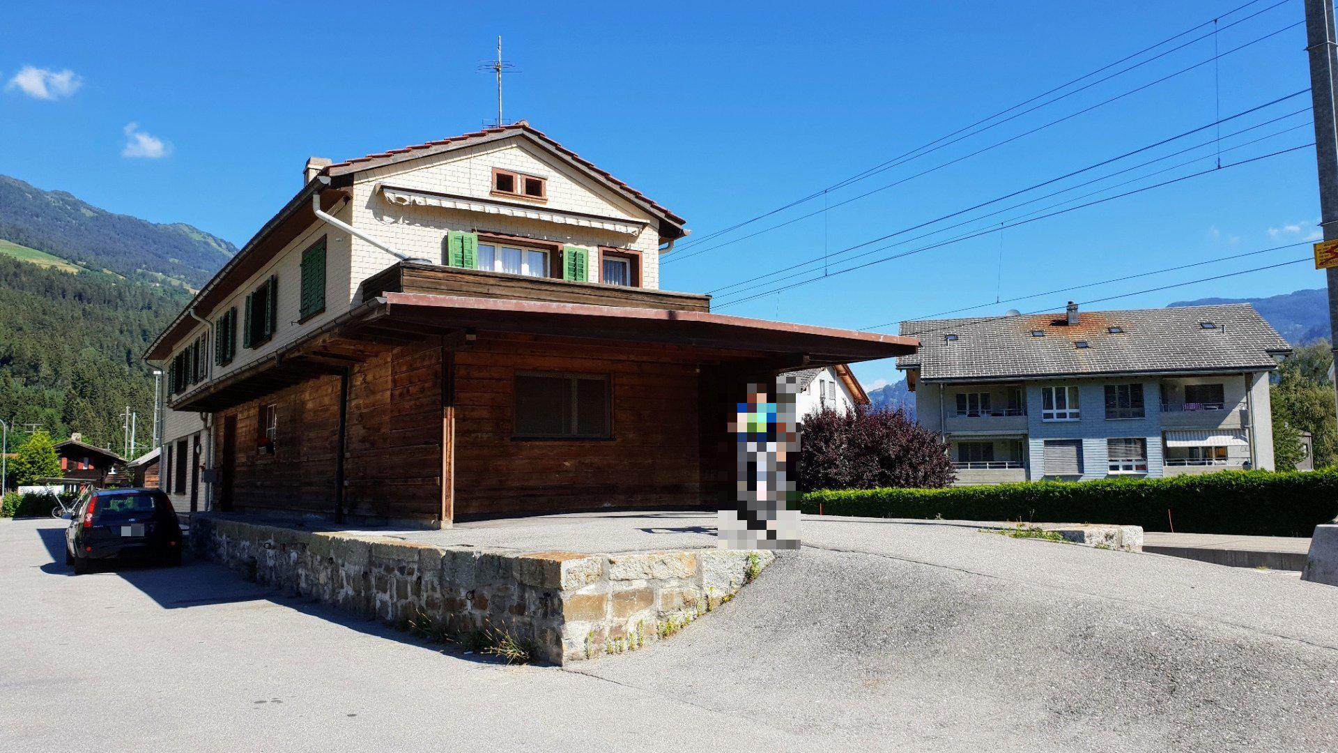 Cazis railway station in Cazis, Switzerland.